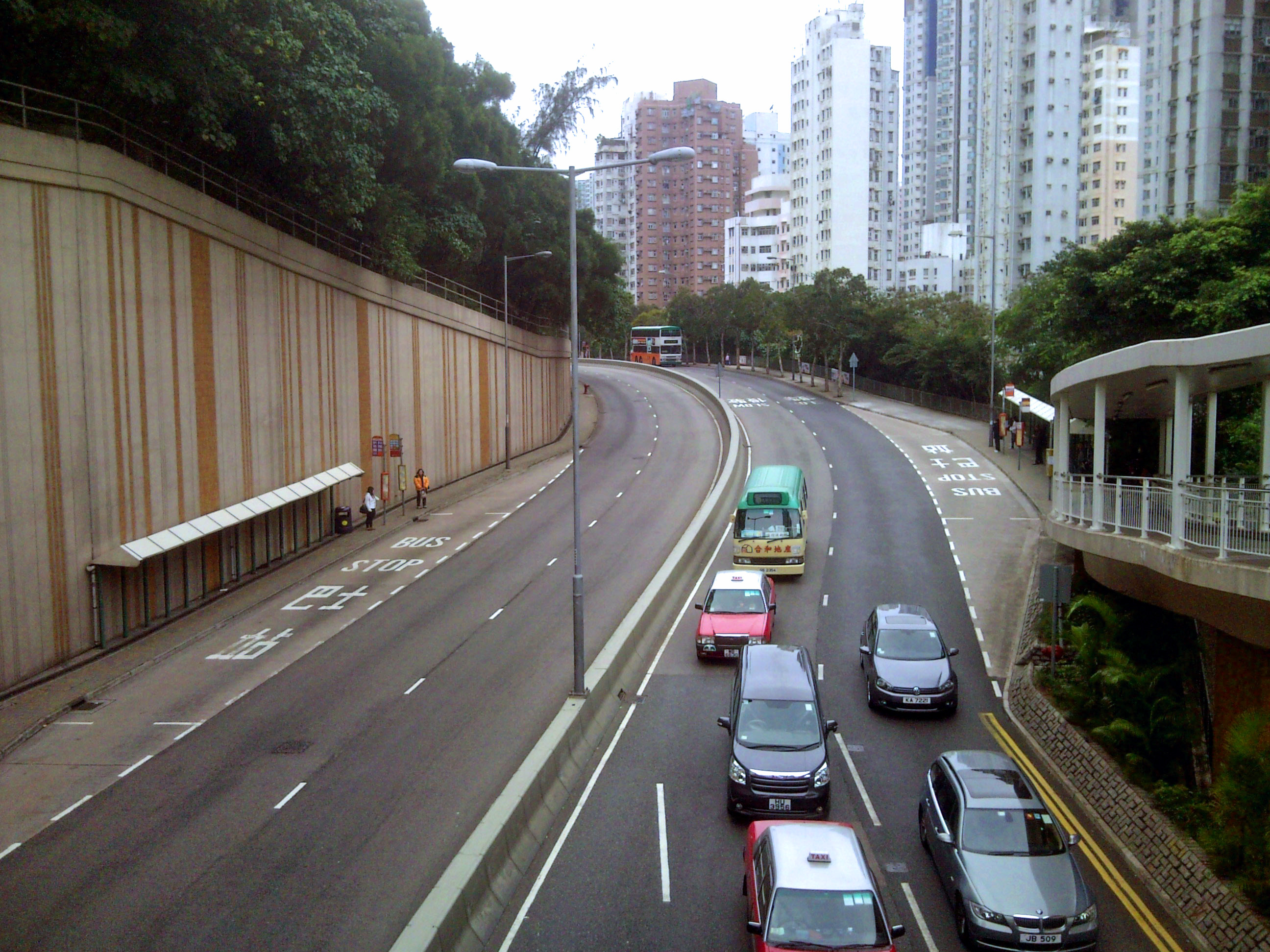 Ap Lei Chau Bridge Road near Yue On Court